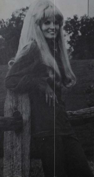 Lynn Anderson in a promotional photograph in Billboard magazine for her single "Listen to a Country Song."